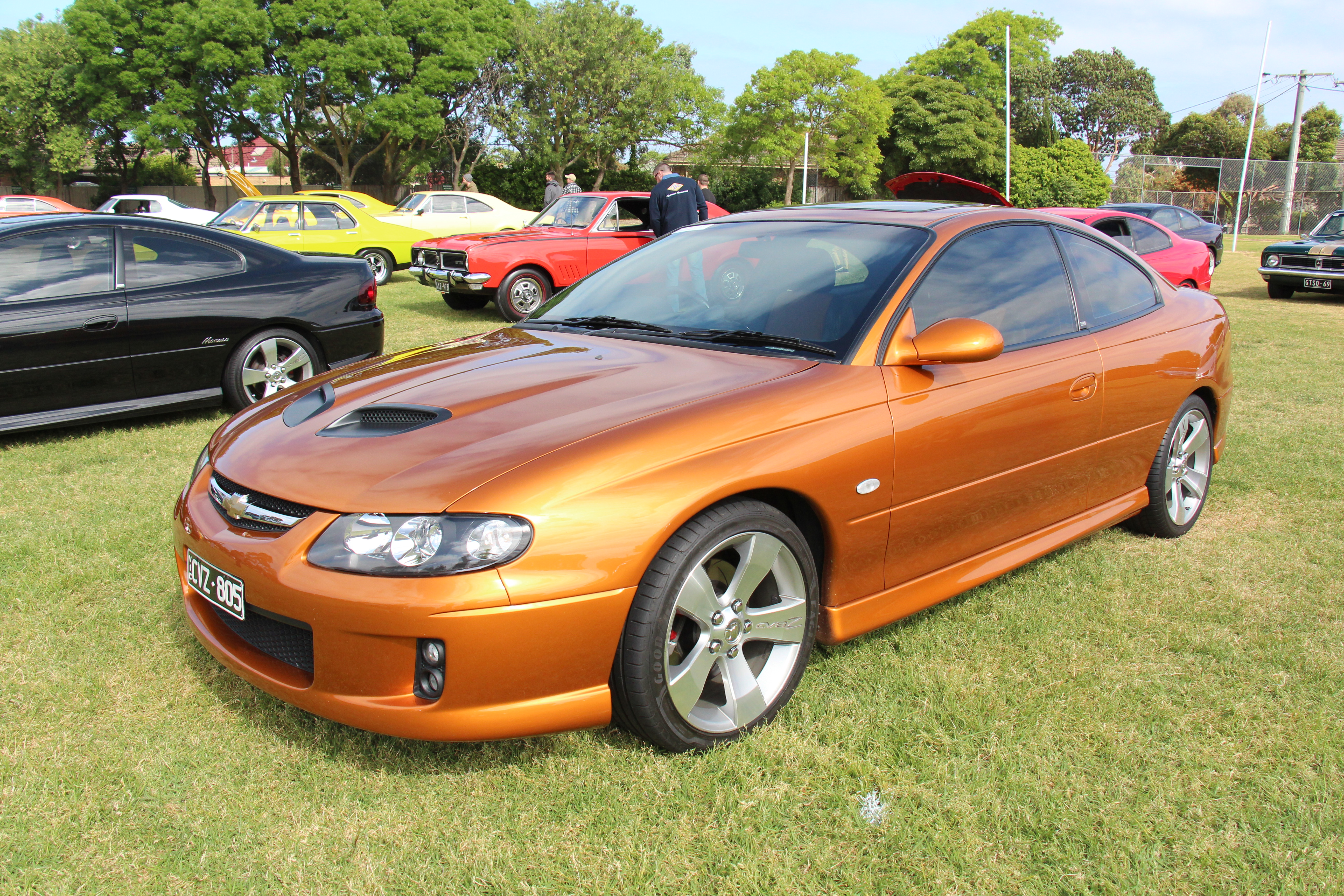 Fusion Orange. Built from August 2004-August 2006. The V2 Monaro was updated in 2004, in line with the update on the Commodore, the VZ, It got revised bumpers and new ducted bonnet. The VZ Monaro was exported all over the world; Chevrolet Lumina Coupe in South Africa and the Middle East, Pontiac GTO in the US and the most powerful version; the 373kw supercharged VXR500 in the UK. Later, the limited edition CV-Z was available to again farewell the Monaro, this car, it got special wheels and a sunroof. HSV did an improved 255kw GTO, 300kw GTS and all wheel drive 'Coupe4' version. A 417kw 427 version was designed but due to costs, only 2 prototypes were built. Engine; 6.0 V8